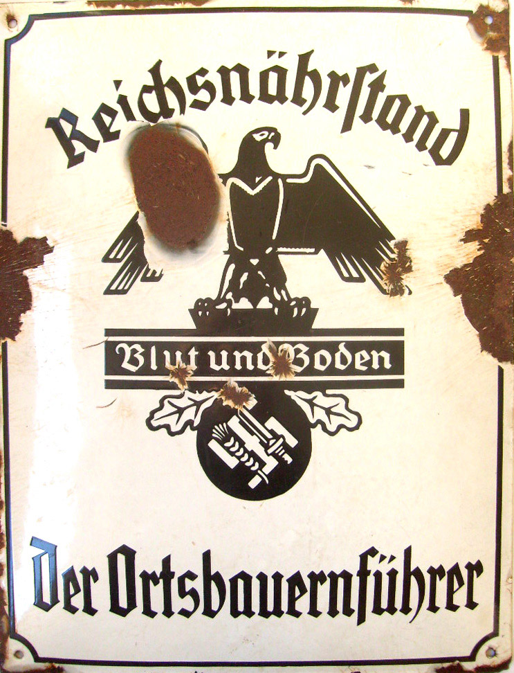 Enamel sign from 3rd Reich size 346 × 445 mm (16.6 × 17.2 inch)